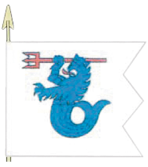 The Colour of 7th Missile Warfare Squadron, Finnish Navy. The main emblem is a modified Finnish lion with a whale's tail holding a trident.